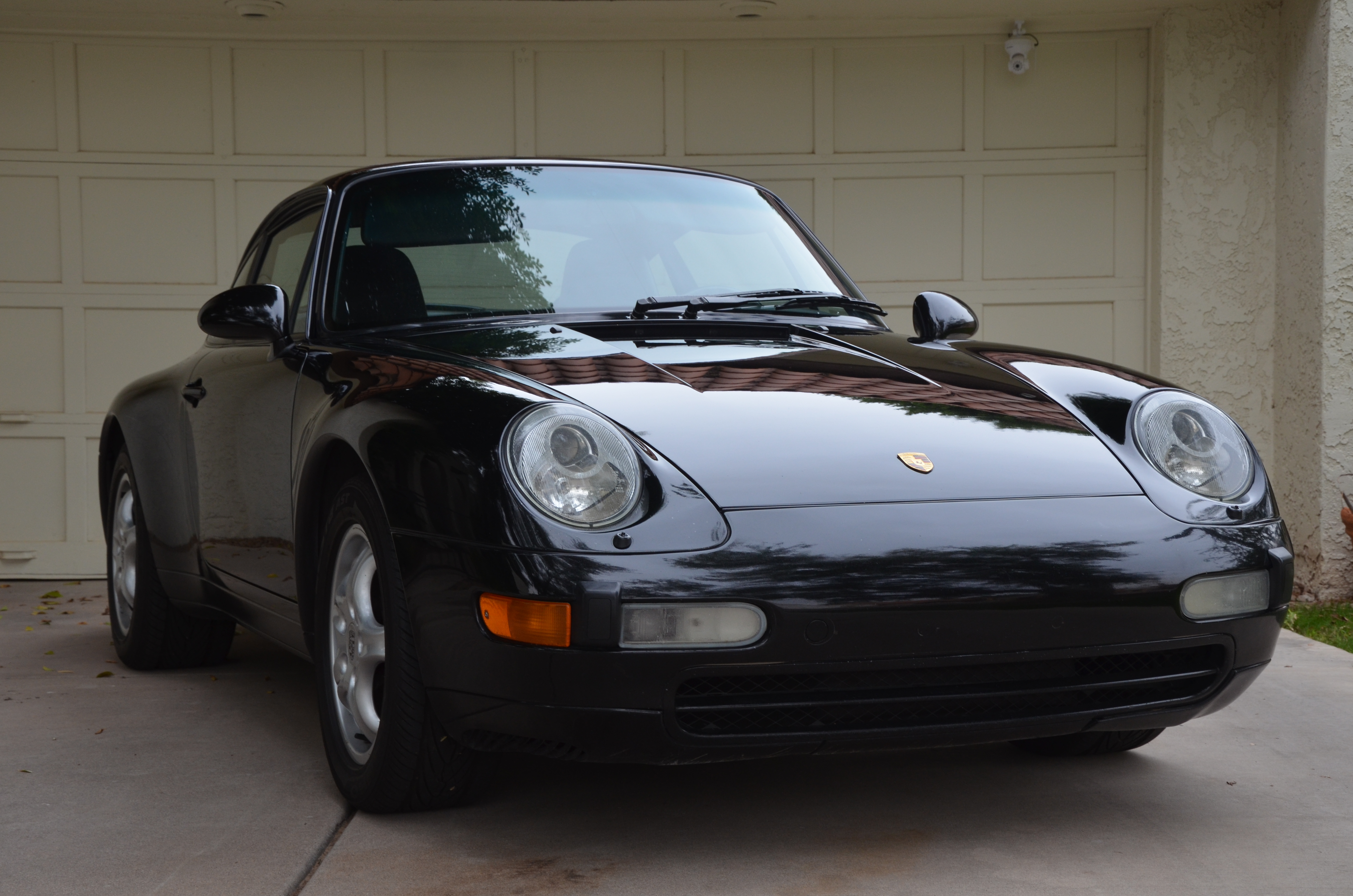 This is a picture of a black 1995 Porsche 911 model 993.